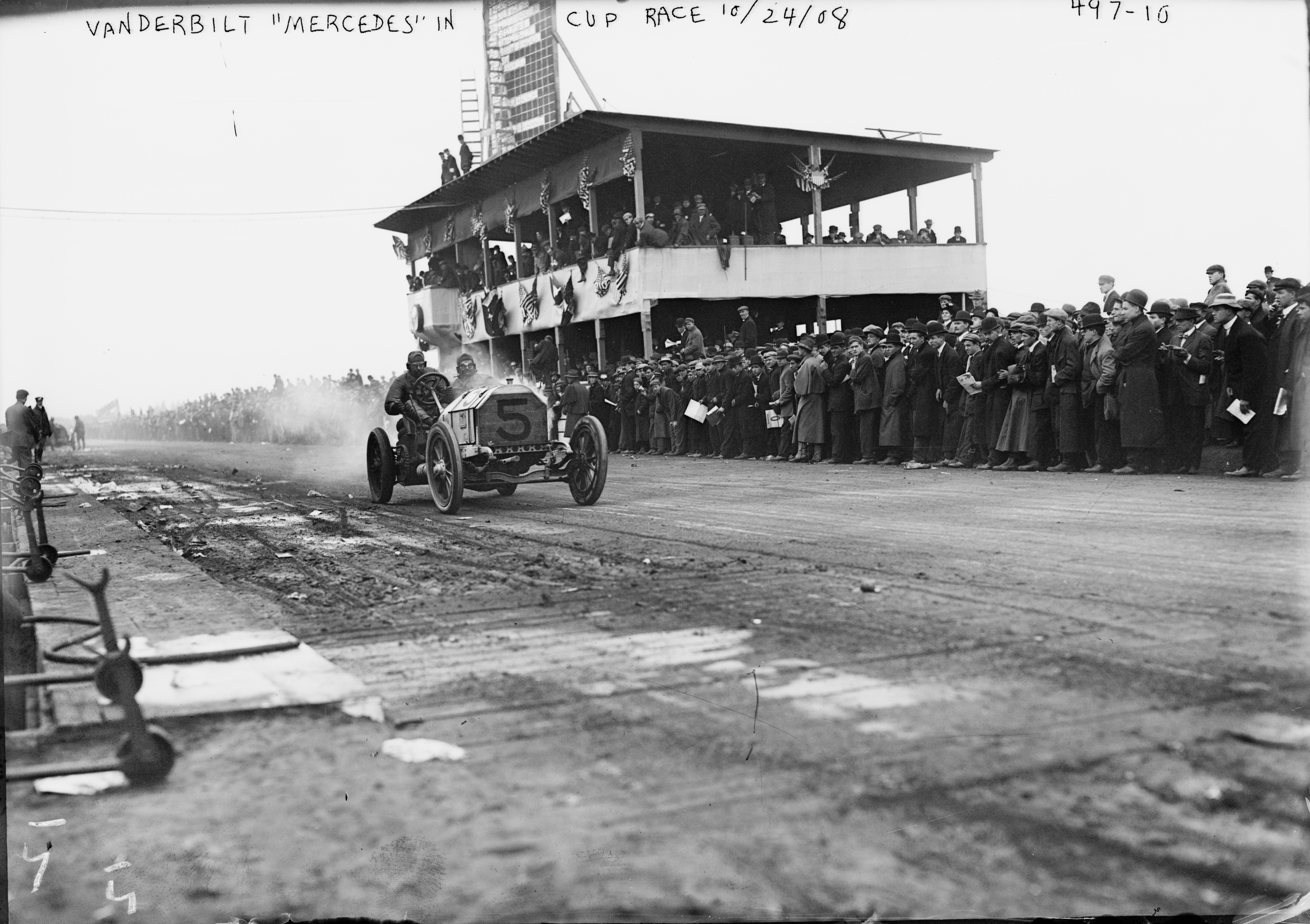 Wilhelm Luttgen at the 1908 Vanderbilt Cup race